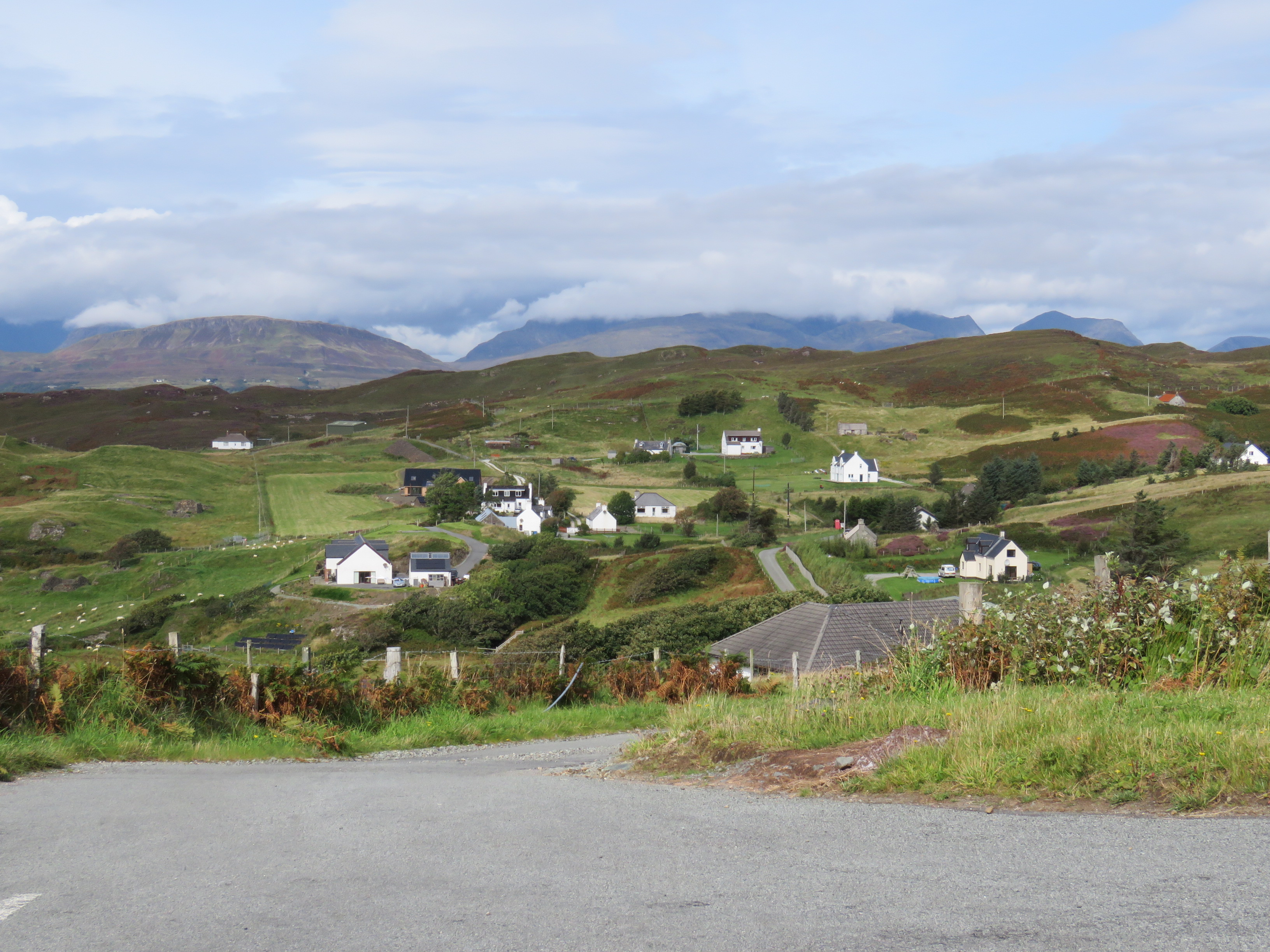 Tarskavaig, Skye, Outer Hebrides, Scotland